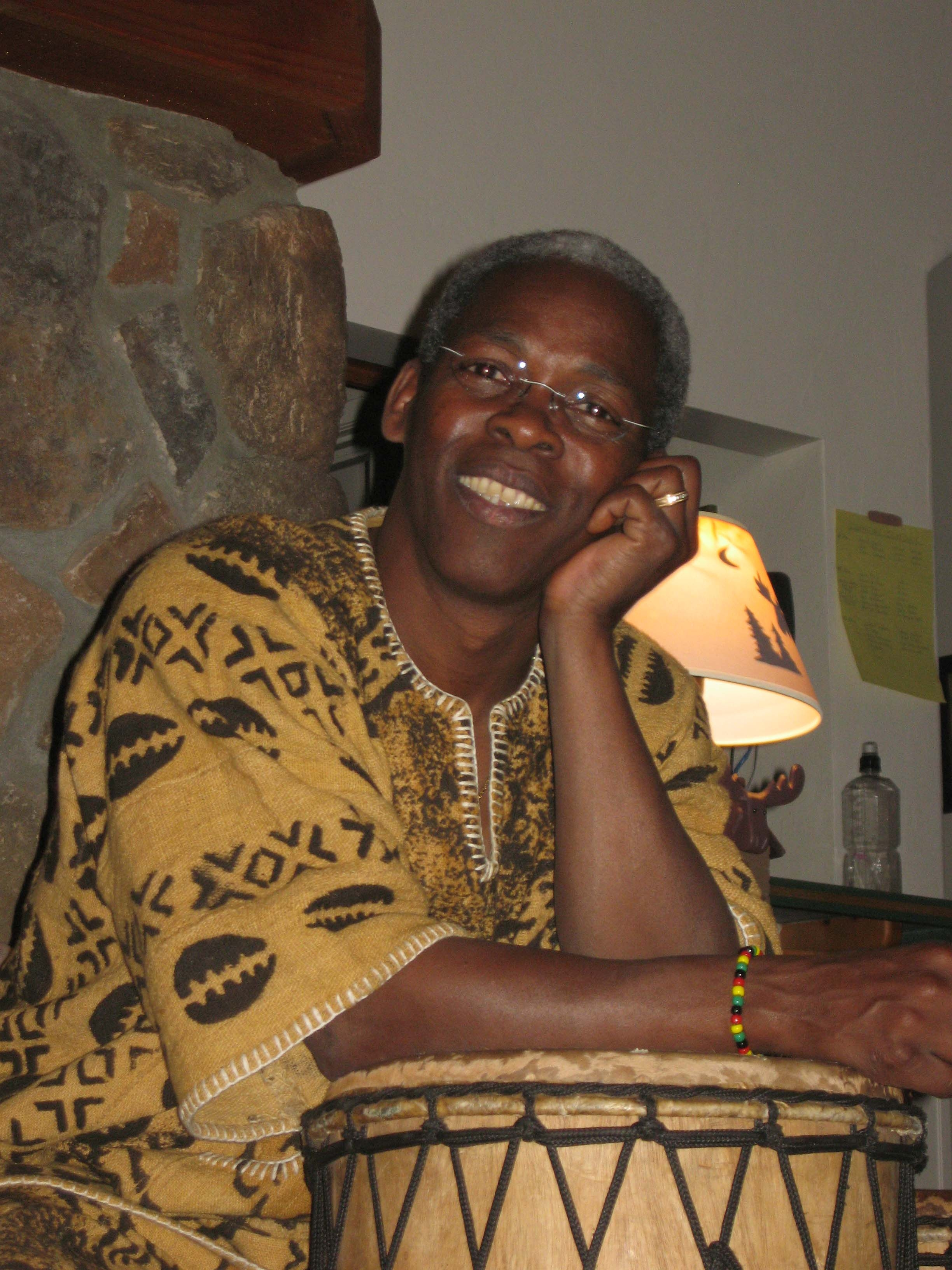 Mamady Keïta is a master drummer from the West African nation of Guinea. He specializes in the goblet-shaped hand drum called djembe.